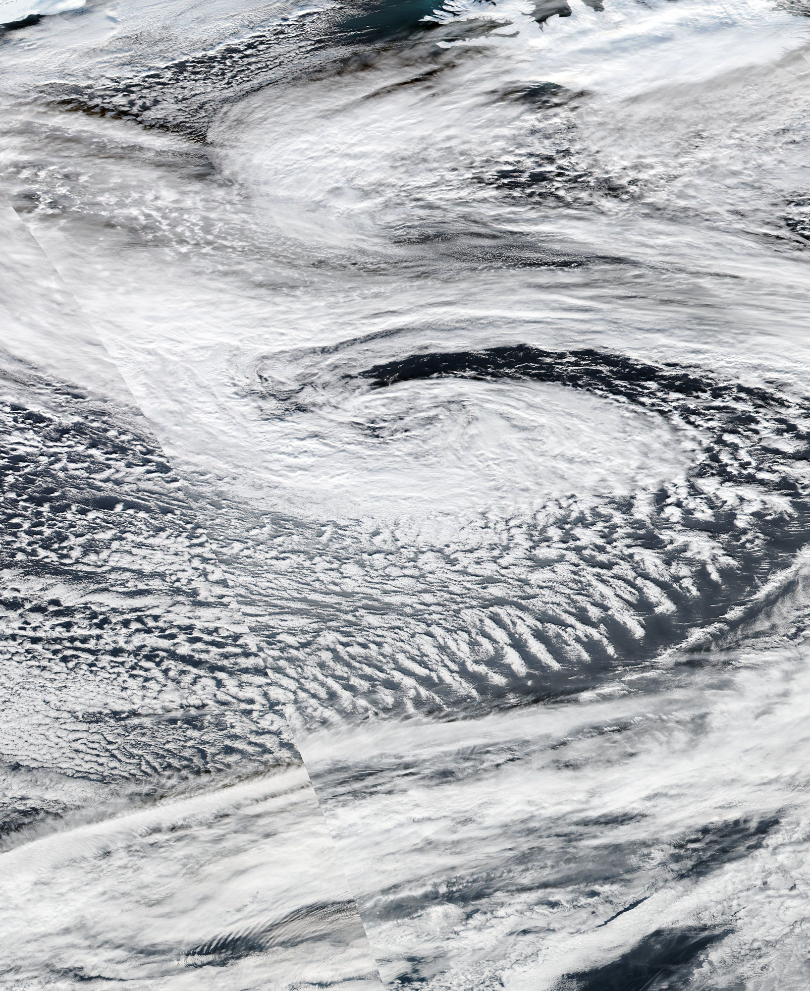 Storm Imogen of the 2015–16 UK and Ireland windstorm season on 7 February 2016.